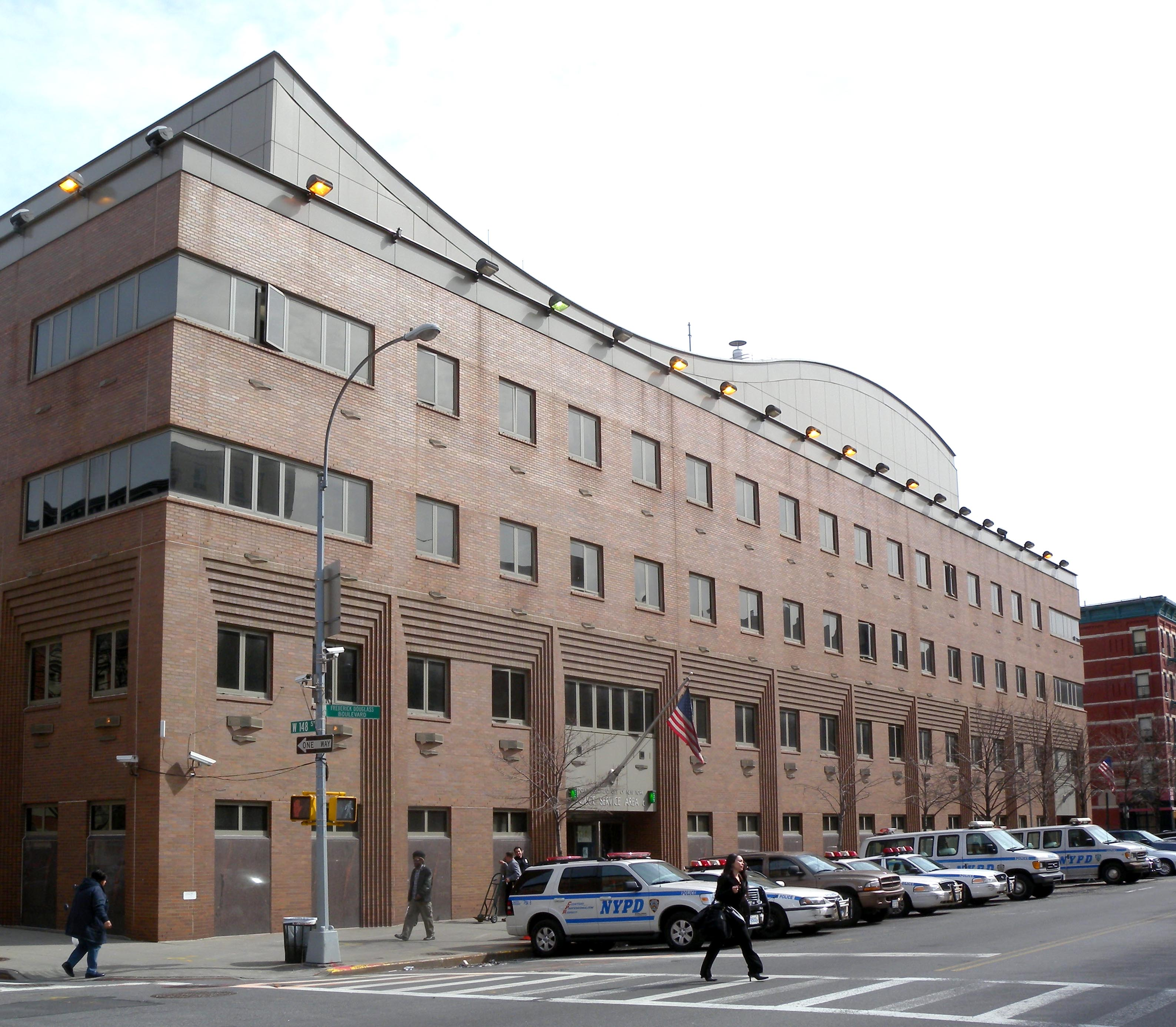 Looking south across FDB (Eighth Avenue (Manhattan) and West148th Street at Police Area 6 HQ on 148th Street on a cloudy afternoon.